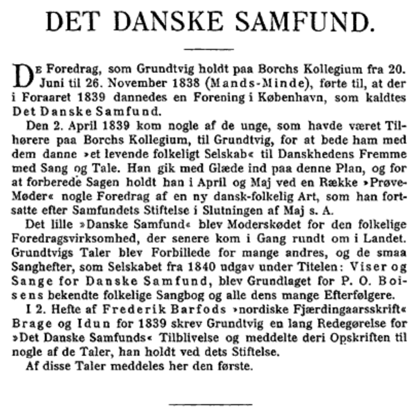 Introduction by Holger Begtrup (1859-1937) to the voluntary association Det Danske Samfund from 1839 by N.F.S. Grundtvig (1783-1872) og Frederik Barfod (1811-1896) Image from ('Selected Writings') Udvalgte Skrifter, Bd. 8, Side 789 at Arkiv for Dansk Litteratur ( about Grundtvig. The edition used by ADL is: Nik. Fred. Sev. Grundtvigs Udvalgte Skrifter 1-10, by Holger Begtrup. Gyldendal, Kbh. 1904-9.